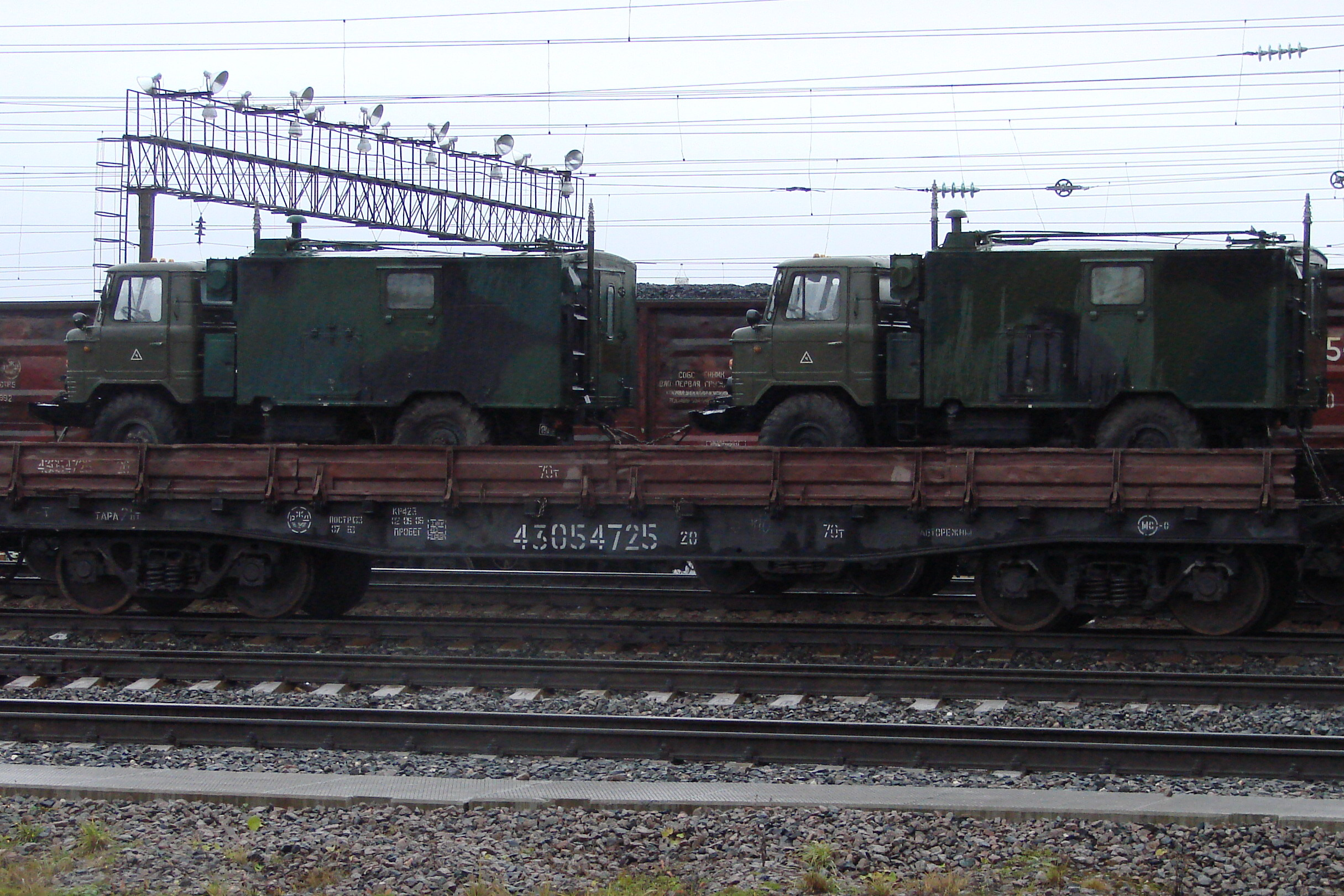 transporting GAZ-66 telecommunications vehicle by railroad